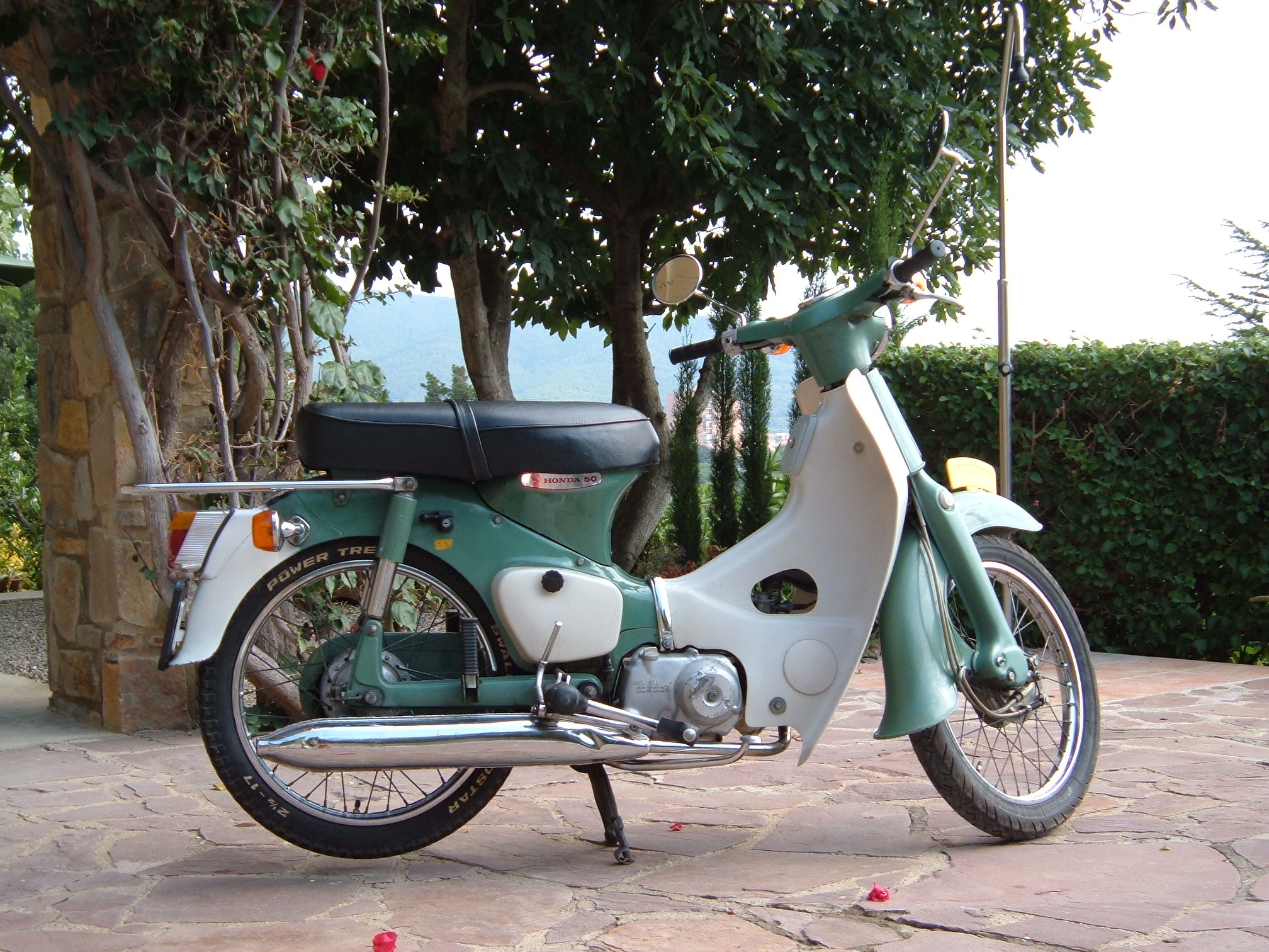 Moped honda c50 dutch model green.